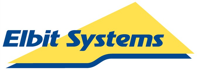 Elbit Systems Logo